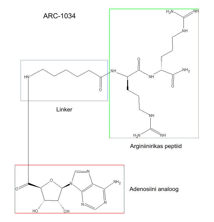 Structure of ARC-type inhibitor ARC-1034. Reference: Structural analysis of ARC-type inhibitor (ARC-1034) binding to protein kinase A catalytic subunit and rational design of bisubstrate analogue inhibitors of basophilic protein kinases, J. Med. Chem. 52 (2009), 308–321.